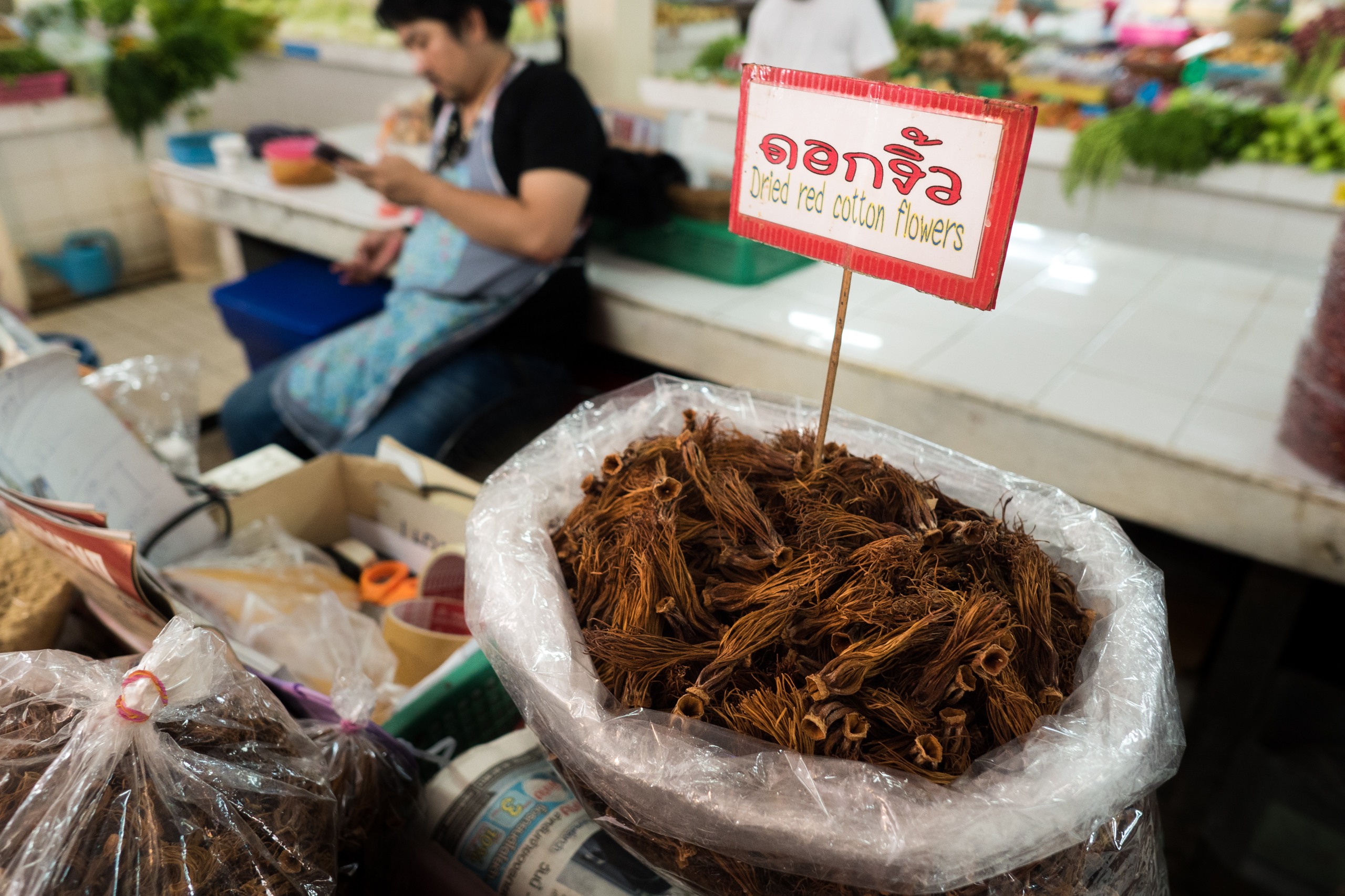 Dok ngio (Thai script: ดอกเงี้ยว) are the dried flowers of the Bombax ceiba. They are used in northern Thai cuisine, amongst other's, in nam ngiao".